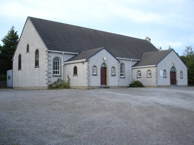 Laide Free Presbyterian Church of Scotland. The church is on the edge of Laide on the road to Aultbea.